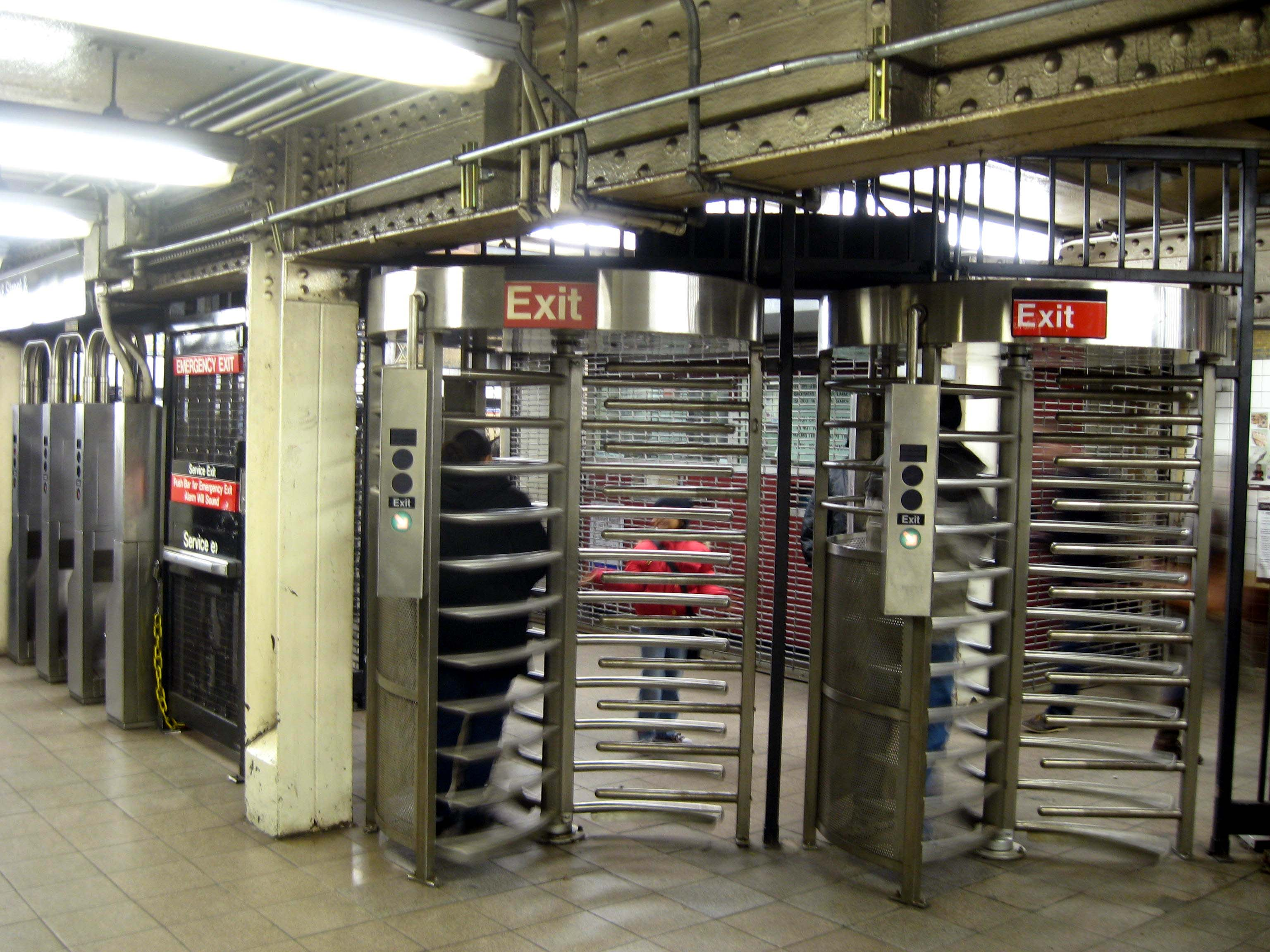 Looking west across platform at downtown turnstyles of en:18th Street (IRT Broadway–Seventh Avenue Line). See File:W18 IRT 1 st jeh.JPG for the stairs directly above.